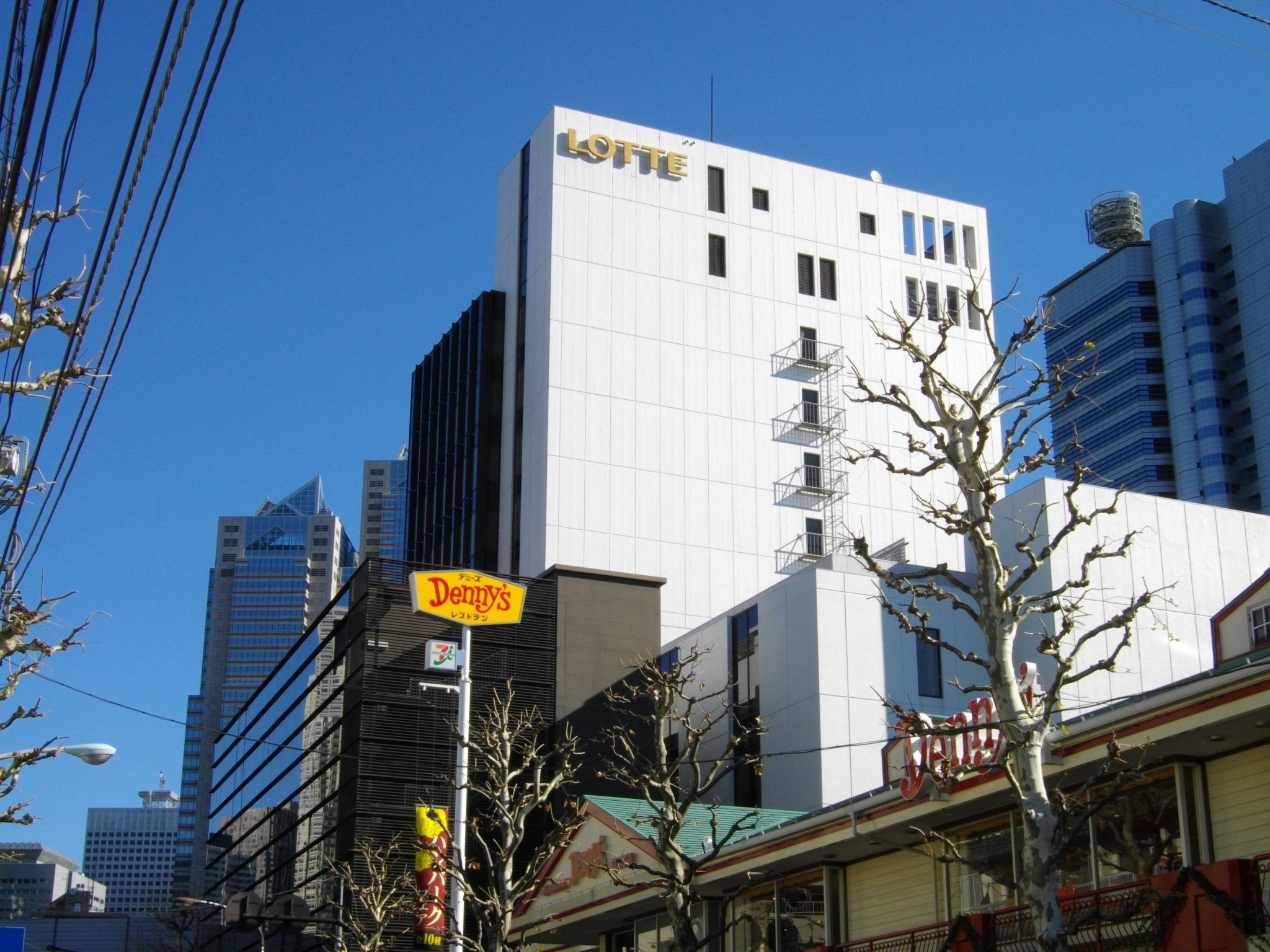 Lotte Head Office